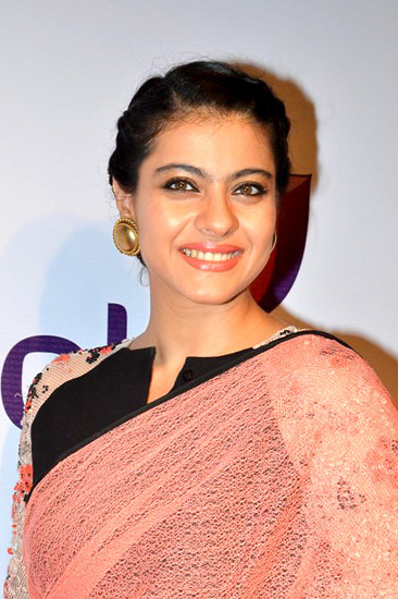 Kajol at the Kelvinator Stree Shakti Women Awards 2014